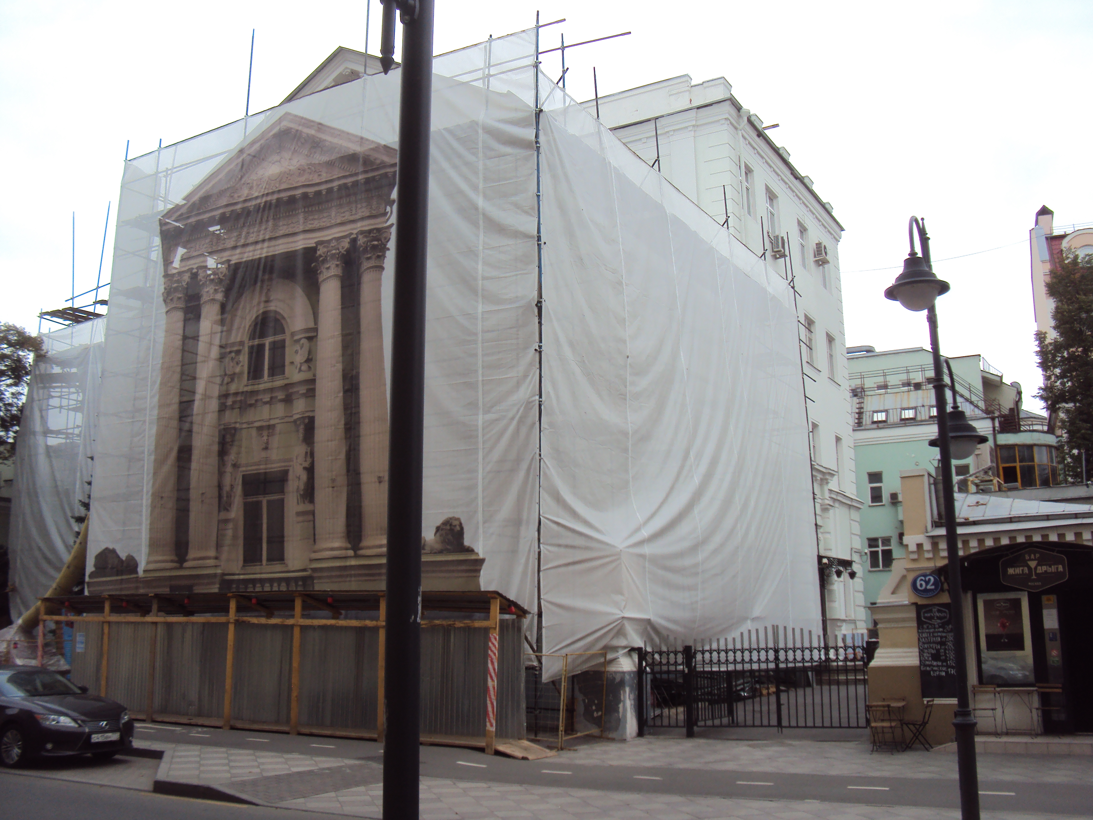 HOMESTEAD von Recke